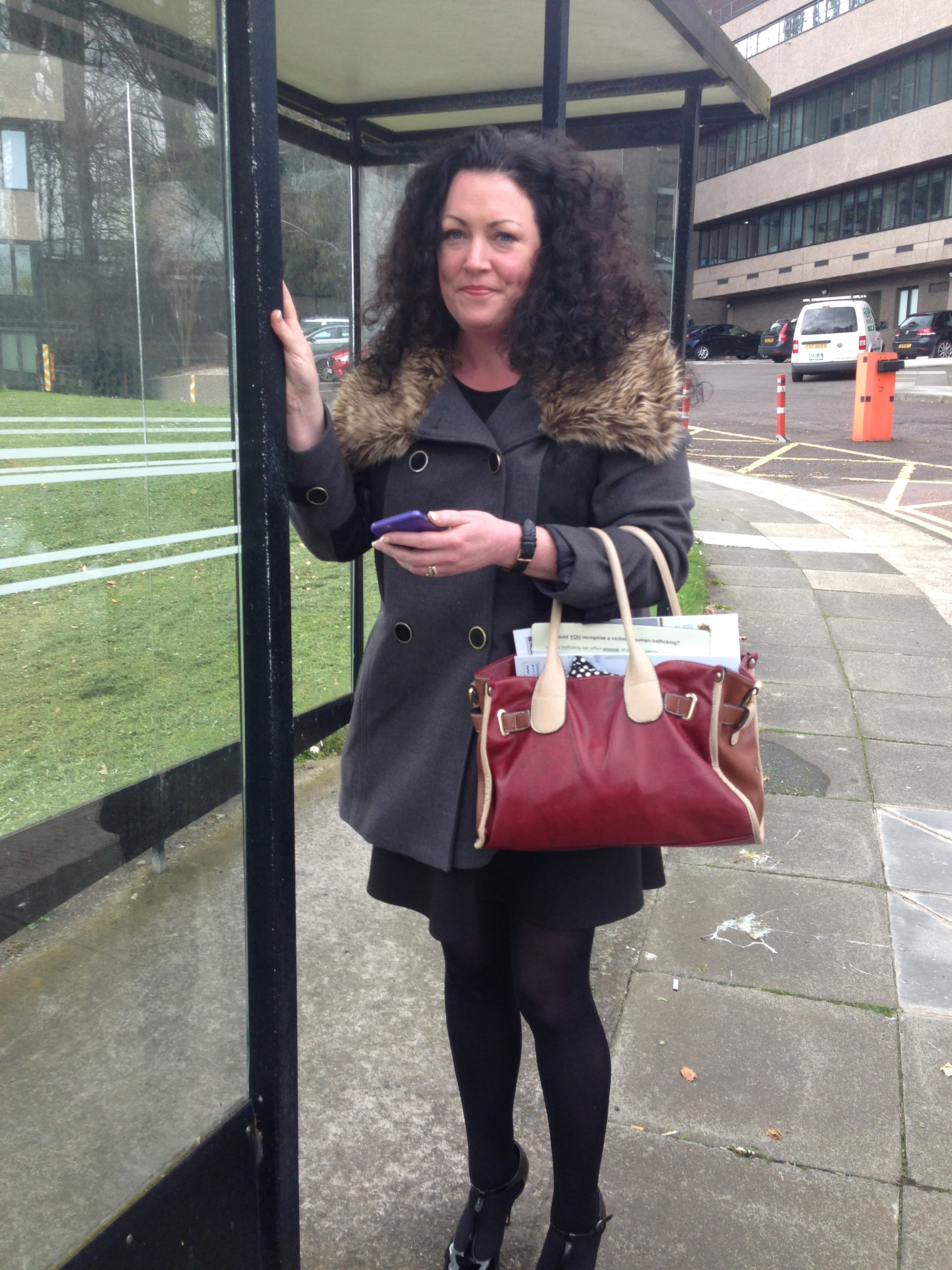 Laura Lee at Stormont Estate, Belfast, Northern Ireland